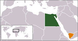 Locator United Arab Republic (Egypt, green) and Yemeni Arab Republic (North Yemen, orange), together they formed a Unified Political Command during the North Yemeni Civil War (1962-1967)